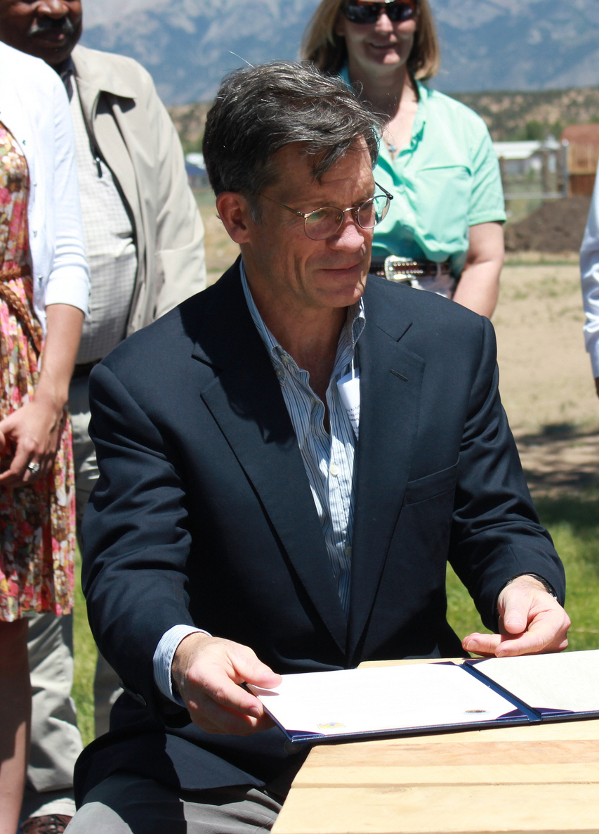 Credit: Ryan Moehring / USFWS